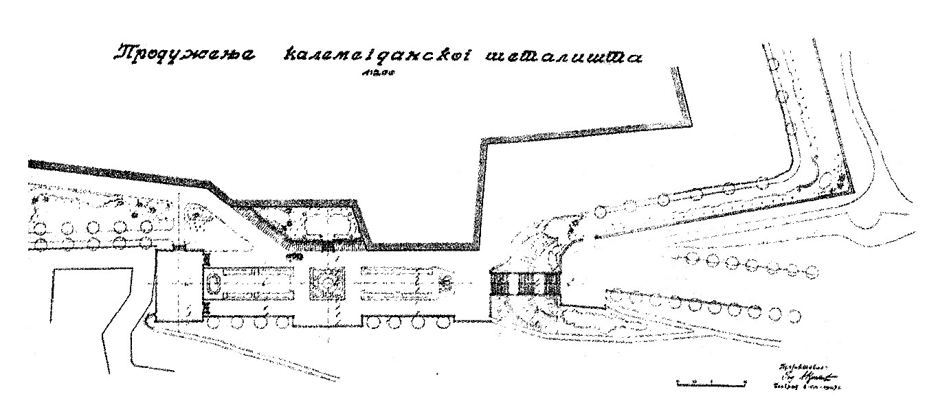 Design of part of Kalemegdan park by Aleksandar Krstic 1927.